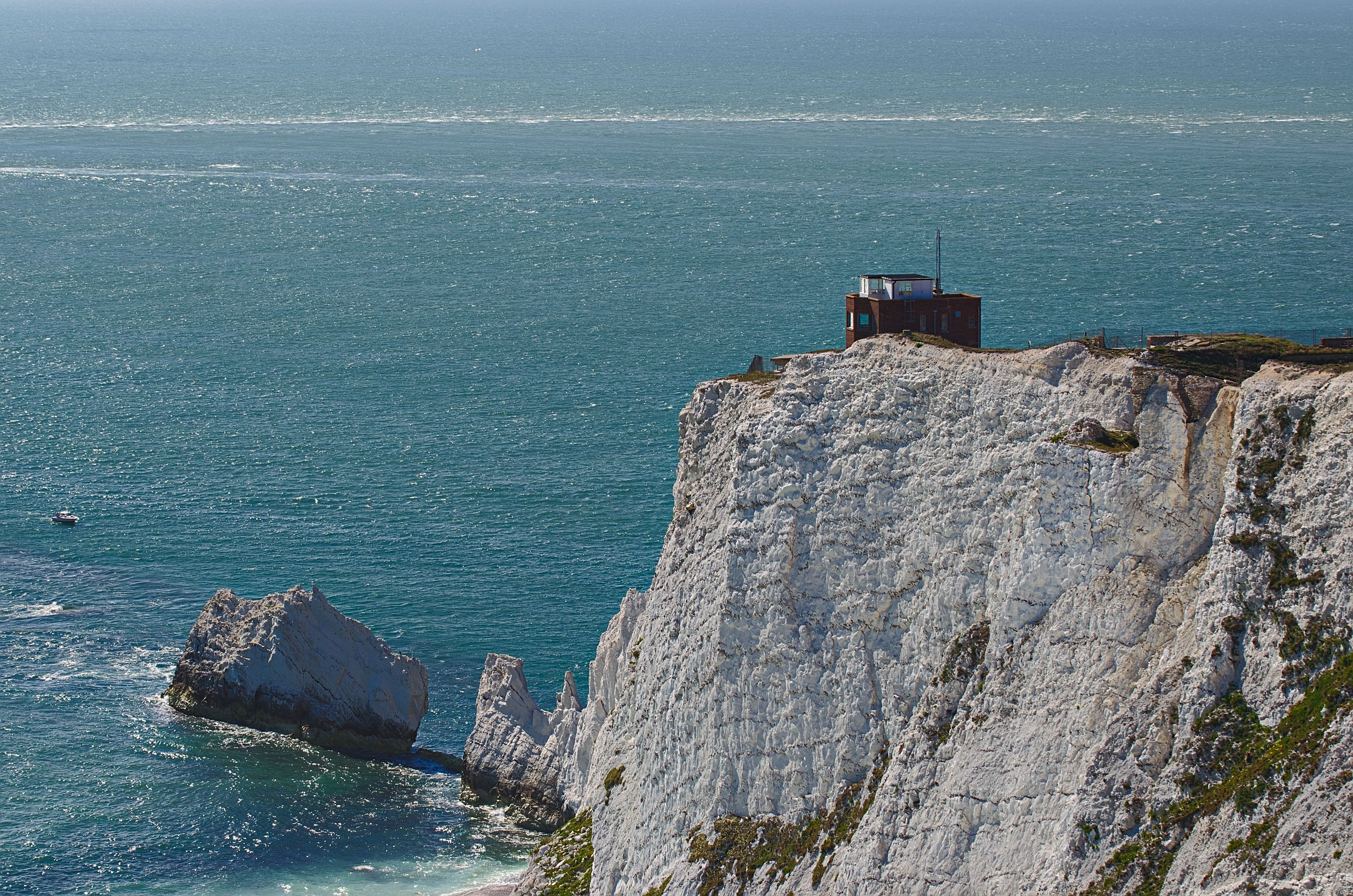 The Old Battery near The Needles at the western end of the Isle of Wight, photo taken from the viewpoint near the New Battery. Wikidata has entry Q26514877 with data related to this item.